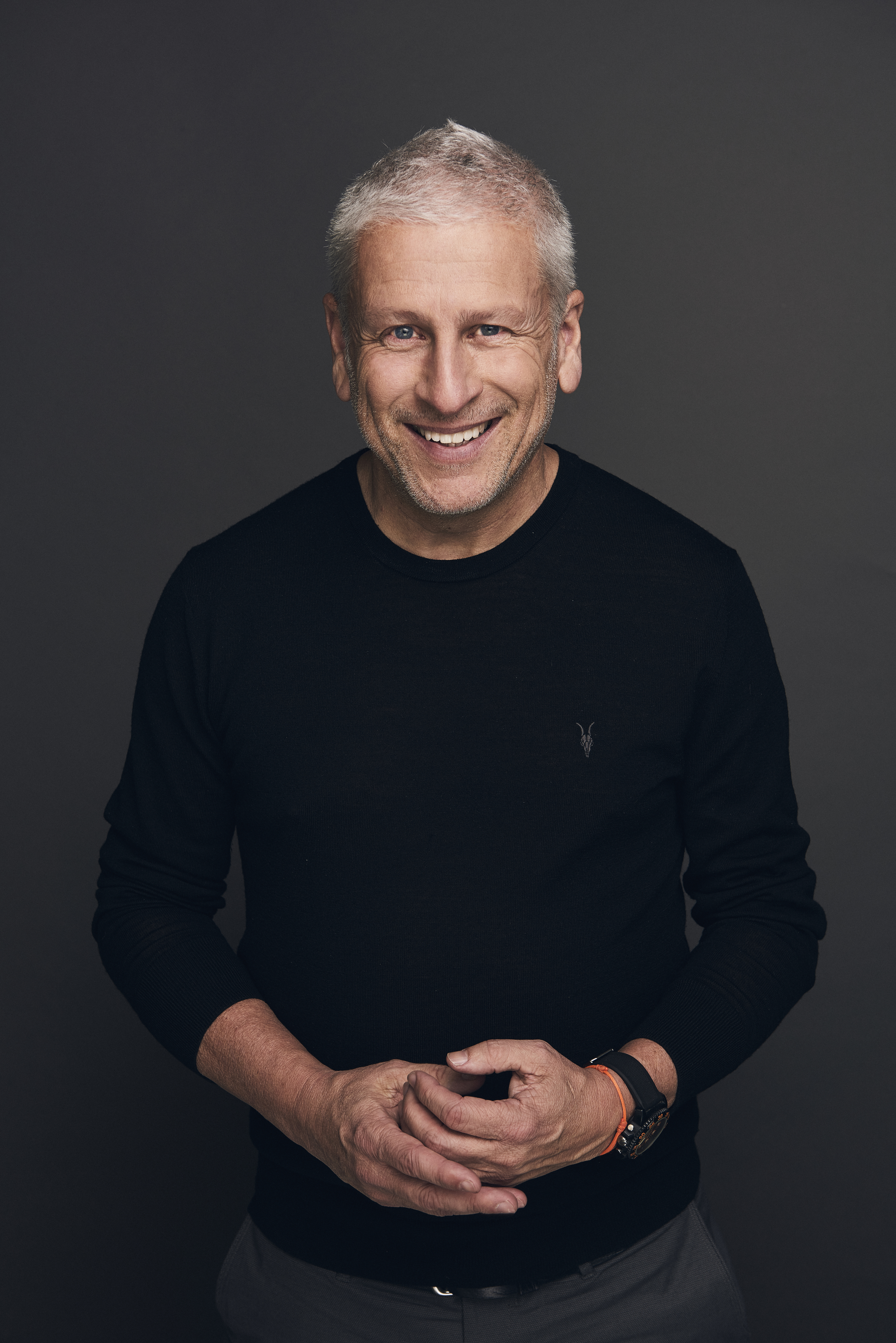 Louie Giglio is the Founder of The Passion Movement and Global Pastor of Passion City Church